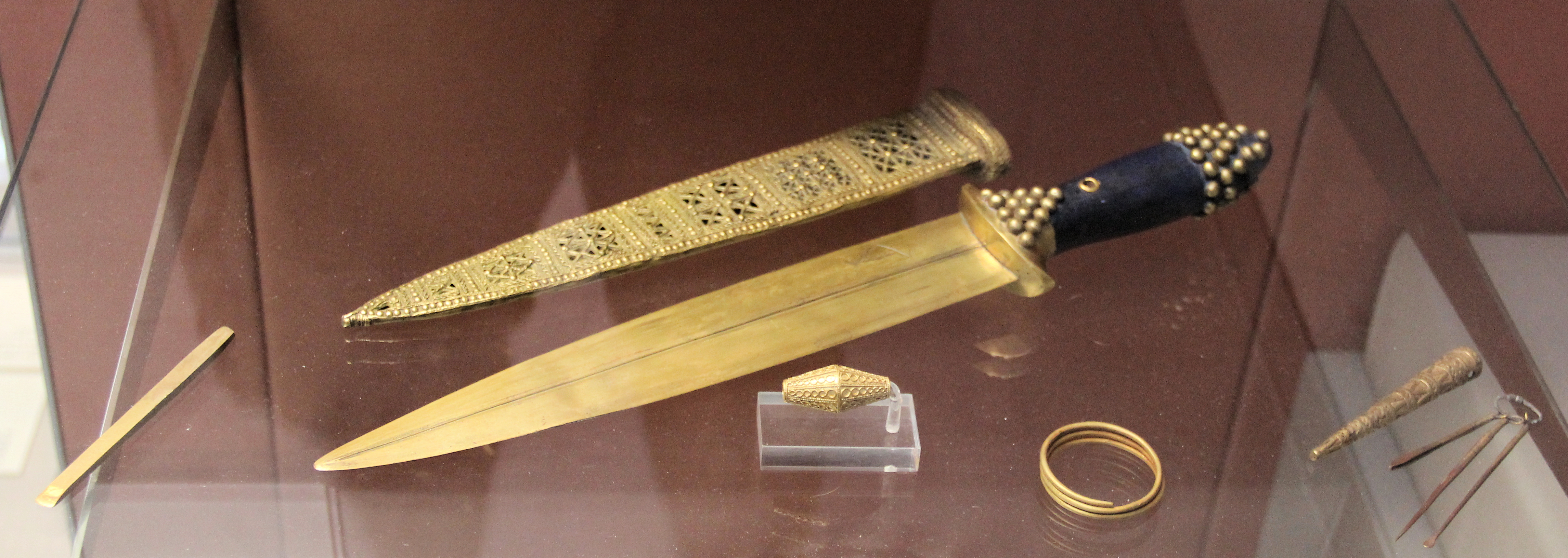 Gold items PG 580